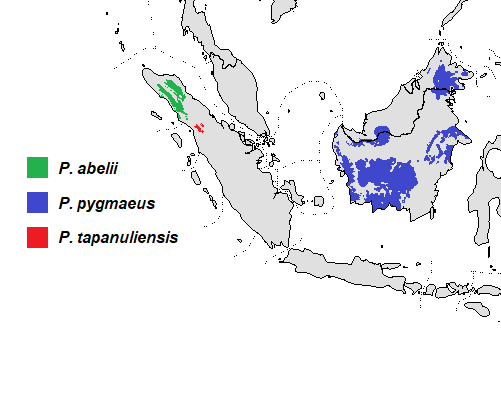 Range of the three orangutan species.